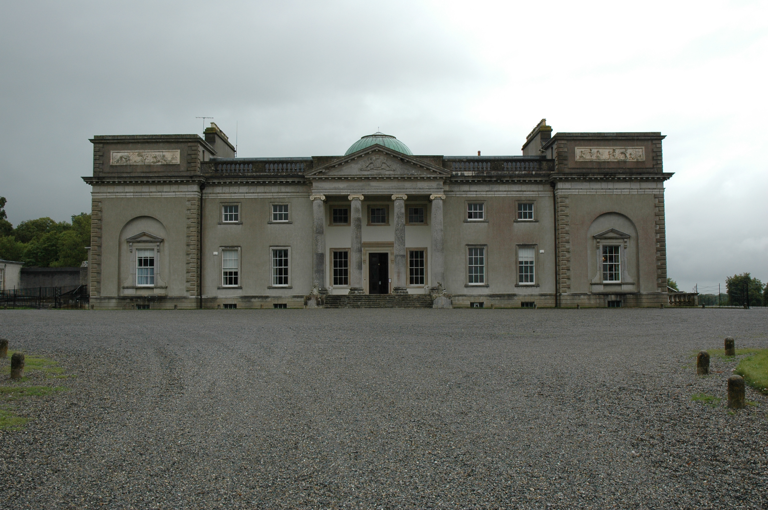 Emo Court, located in the village of Emo in County Laois, Ireland, is a large neo-classical mansion, formal and symetrical in its design and with beautifully proportioned rooms inside. It was designed by the architect James Gandon in 1790 for John Dawson, the first Earl of Portarlington. It is the only house to have been designed by Gandon. Other buildings by him include the Custom House and Kings Inns, both in Dublin. The approach to Emo Court today begins through a rather unobtrusive gateway. Within the grounds, a road runs for some distance through a beech wood which opens suddenly to give a view to the right of the house and the Wellingtonias which now line an abandoned avenue. Visitors are directed to a car park at the side, so that the house and its trees are preserved free from cars and from a goodly share of the 21st century. To the left are coach houses and servants’ quarters, to the right beautiful mature trees and in the centre the entrance front, dominated by a pediment supported by four graceful Ionic pillars. The Earl’s coat of arms fills the pediment and, to left and right, are 18th century friezes depicting agriculture and the arts. Heraldic tigers guard the steps. The gardens at Emo are magnificent and they too have been brought back to the splendour of their past, with formal areas, woodland walks, abundant statuary and a lake. They are divided into two main areas. The Clucker, which contains some fine and rare specimen trees and a vast range of azaleas and rhododendrons and other shrubs. This part of the garden is at its magnificent best in late Spring. The Grapery is an arboretum though which wind a series of pathway, each opening to vistas across the surrounding Slieve Bloom mountains or towards the house. This is a marvellous place to visit in Autumn especially when it is a blaze of dramatic colours.